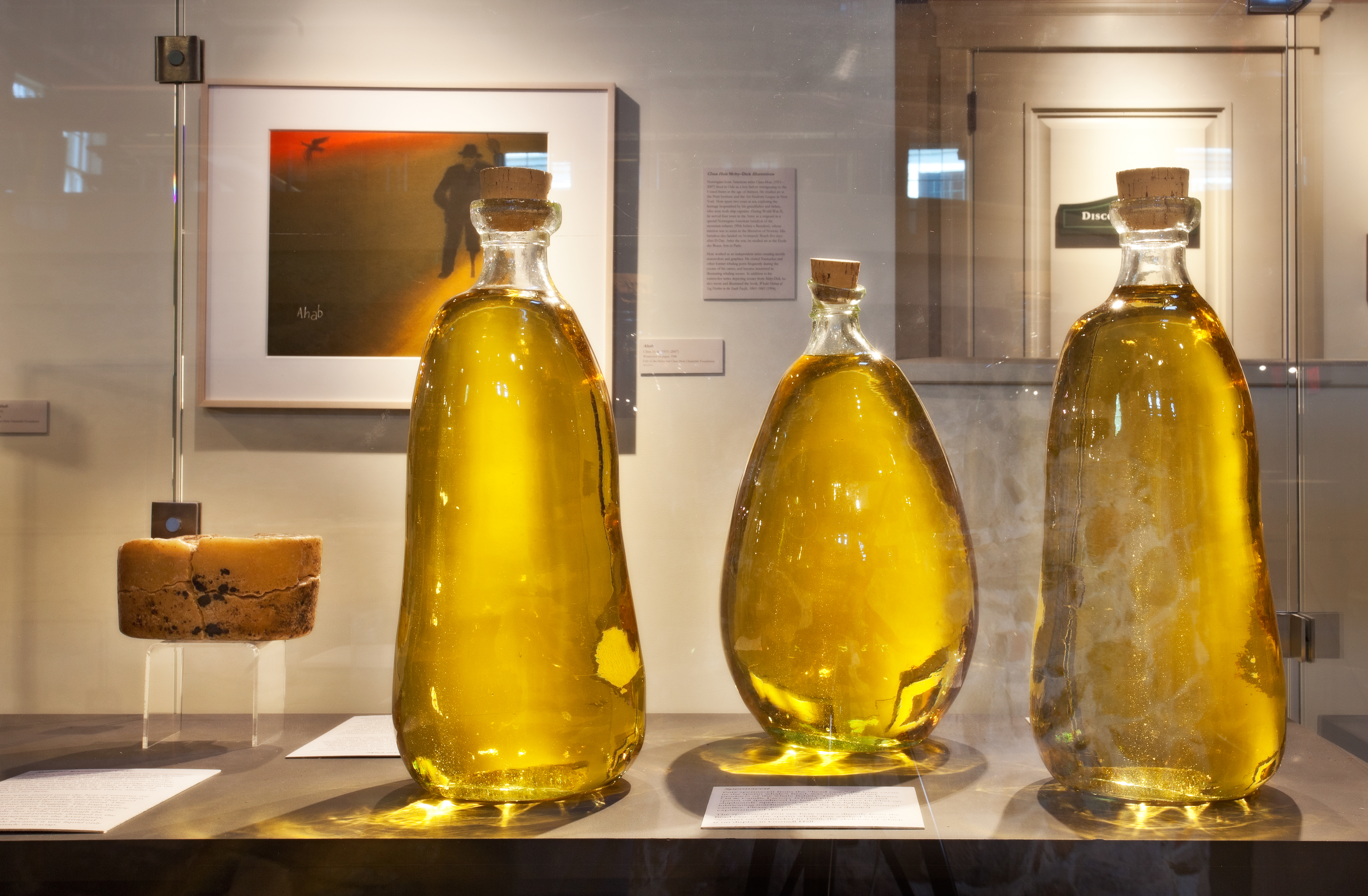 Photo by Jeff Allen. Whale Oil